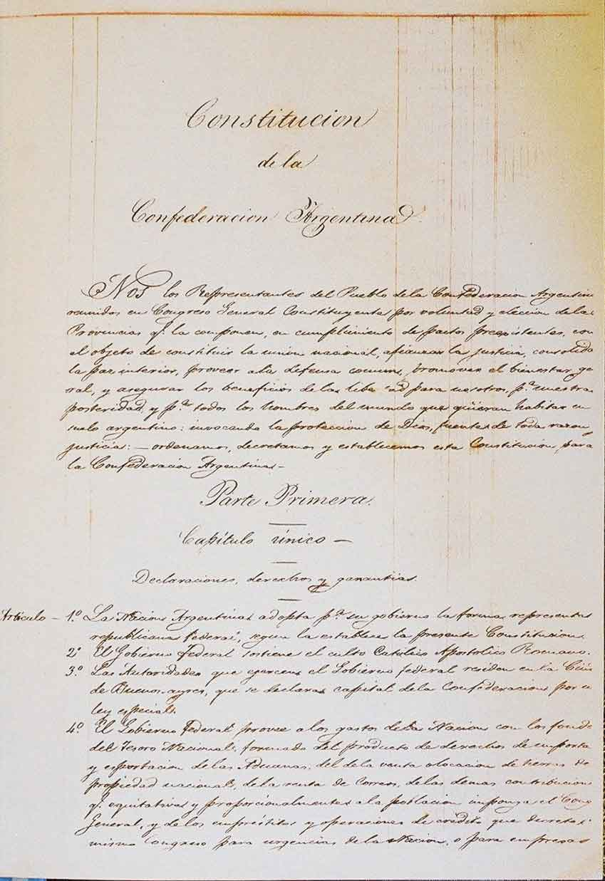 Original manuscript of the 1853 Argentine National Constitution. Text is naturally, being a legislative text, and due to age in the public domain.